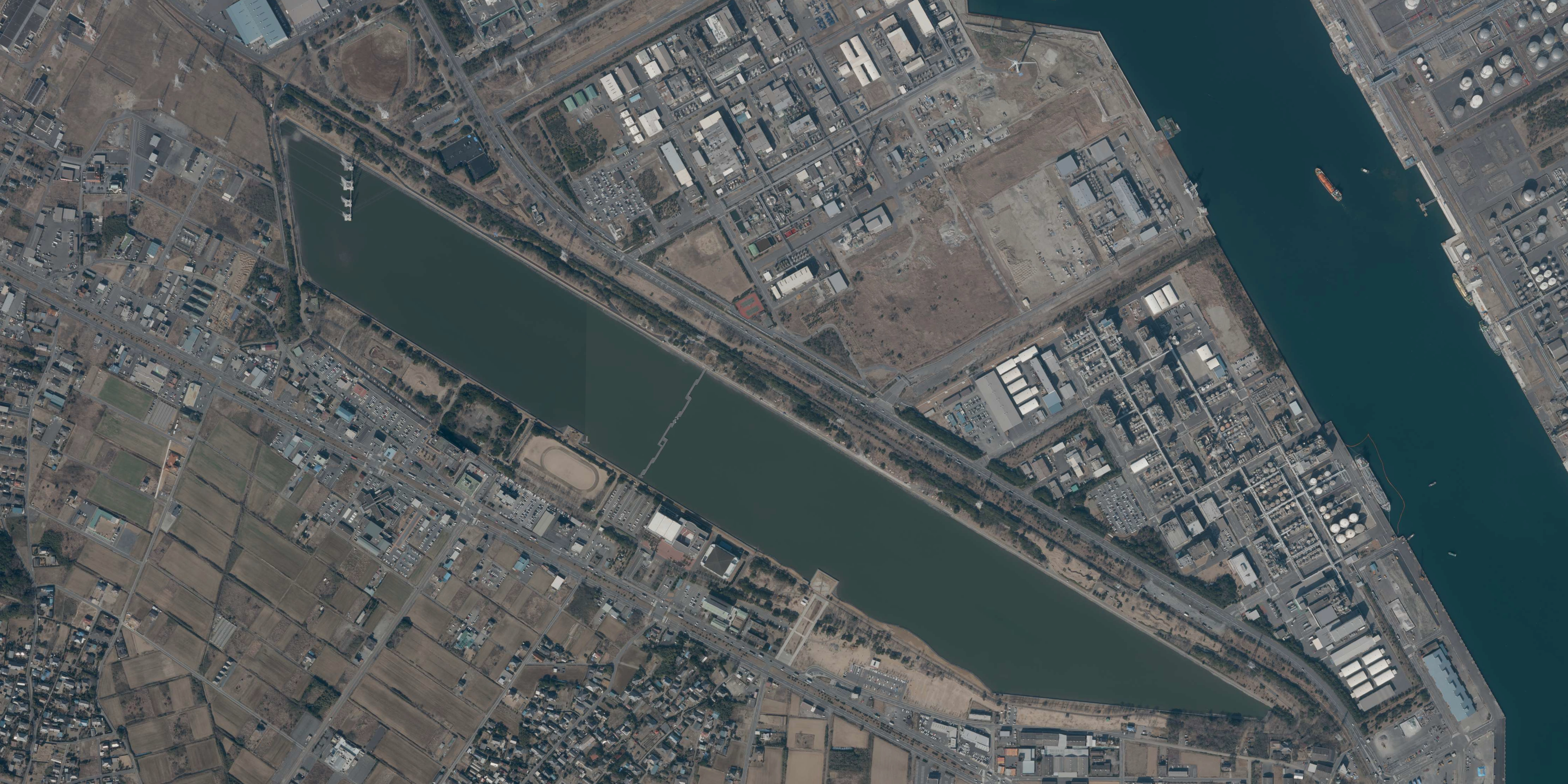 Around Gōnoike pond taken in 2012